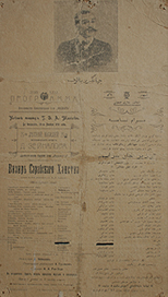 Poster of Vizir of Sarab khanate dedicated to Jahangir Zeynalov